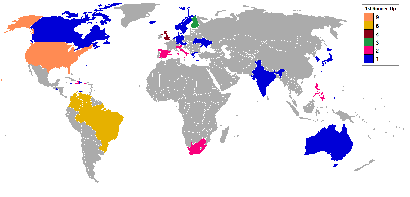 Map showing the 1st runner-up titles in the Miss Universe participant countries and territories.